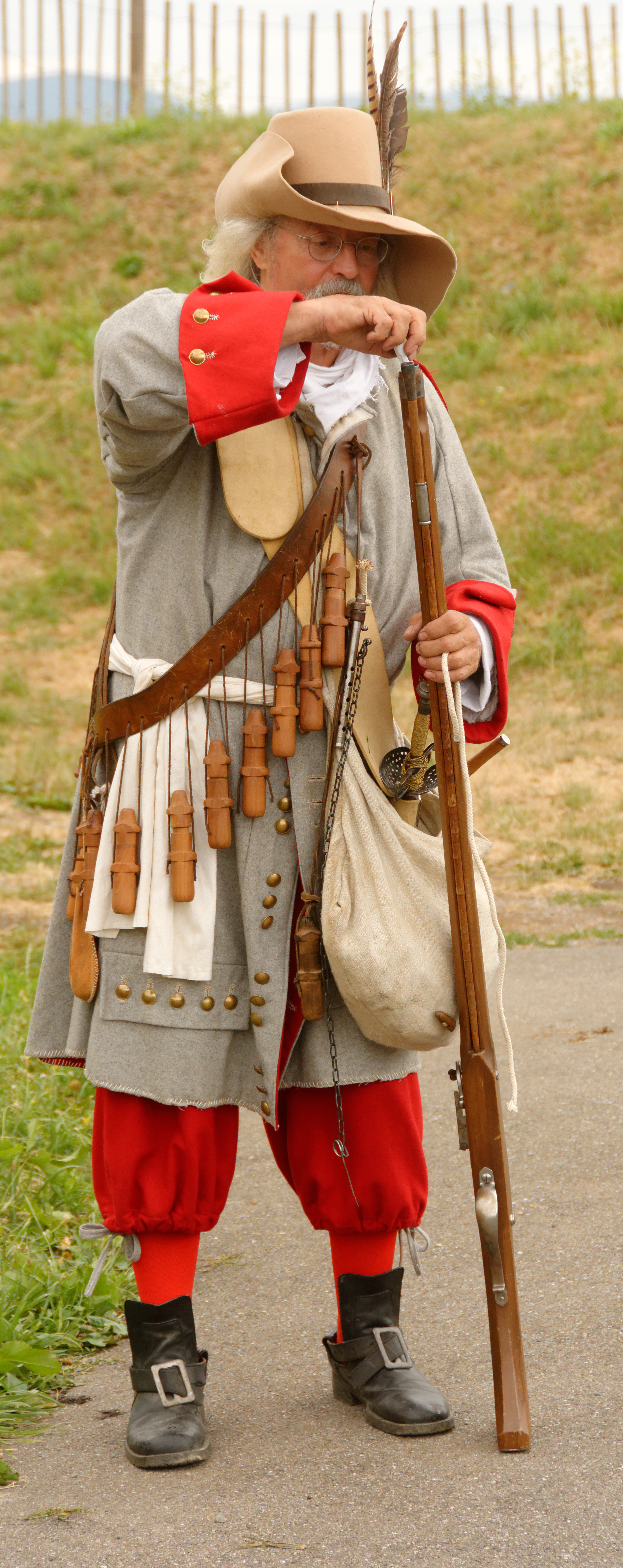 Personality rights warningAlthough this work is freely licensed or in the public domain, the person(s) shown may have rights that legally restrict certain re-uses unless those depicted consent to such uses. In these cases, a model release or other evidence of consent could protect you from infringement claims.